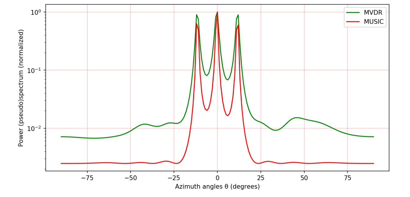 The description is provided by us via the following link.